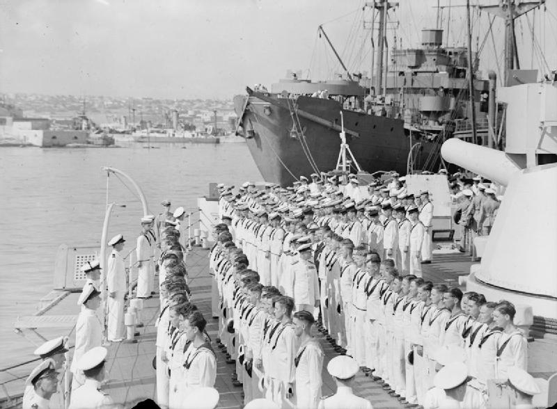 HMS Warspite in the Mediterranean. August 1943, on Board HMS Warspite. C in C Admiral Cunningham addressing the ship's company of HMS WARSPITE, his old flagship.